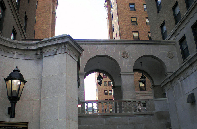 Forbes Avenue entrance to Schenley Quadrangle at the University of Pittsburgh. photo by Michael G White